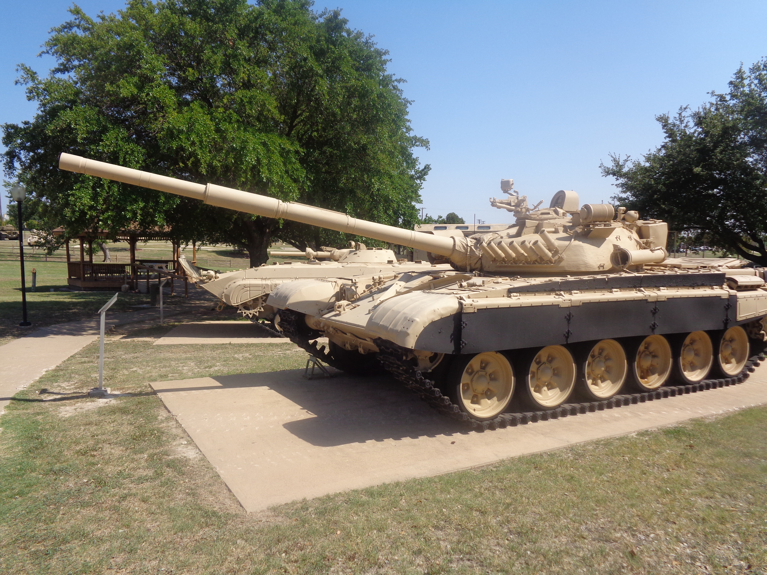 Vehicles at the 1st Cavalry Division Museum